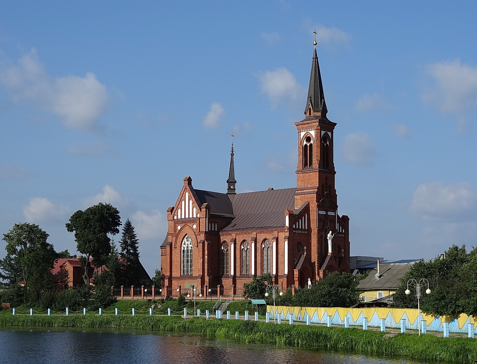 The Church of Saint Anthony of Padua in Pastavy, Belarus, was built in 1887.